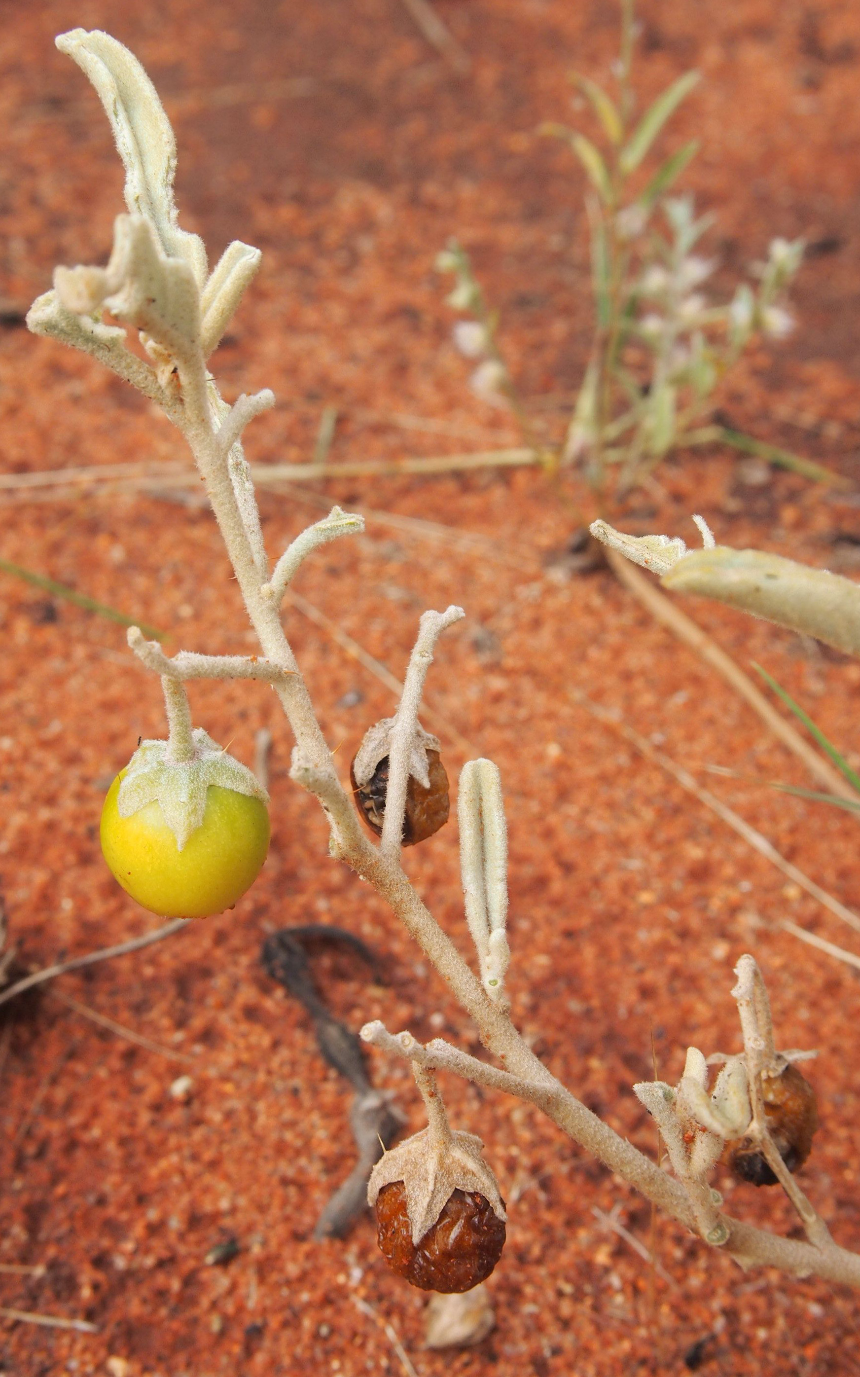 Solanum centrale fruit